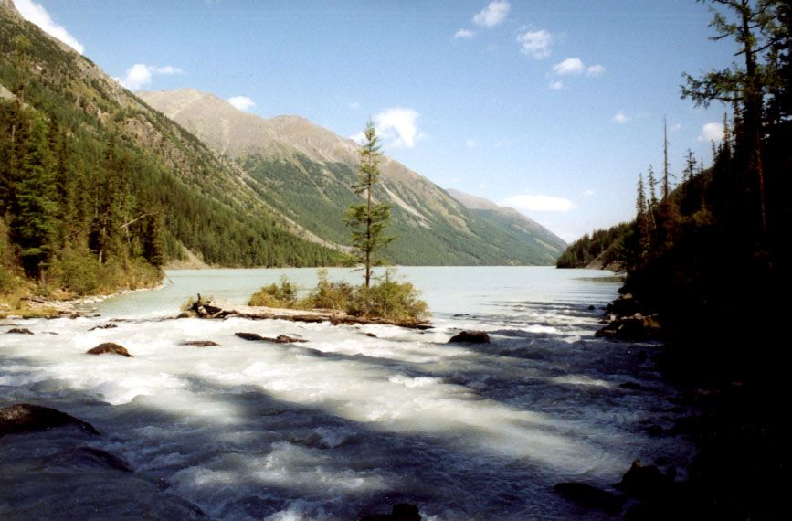 Altai, Lake Kutsherla in Altay Mountains, Russia